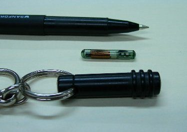 The internals of a speedpass shown beside another speedpass and pen